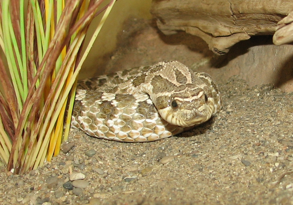 Western Hognose (Heterodon nasicus) at Louisville Zoo